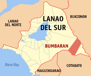 Map of the Lanao del Sur showing the location of Bumbaran